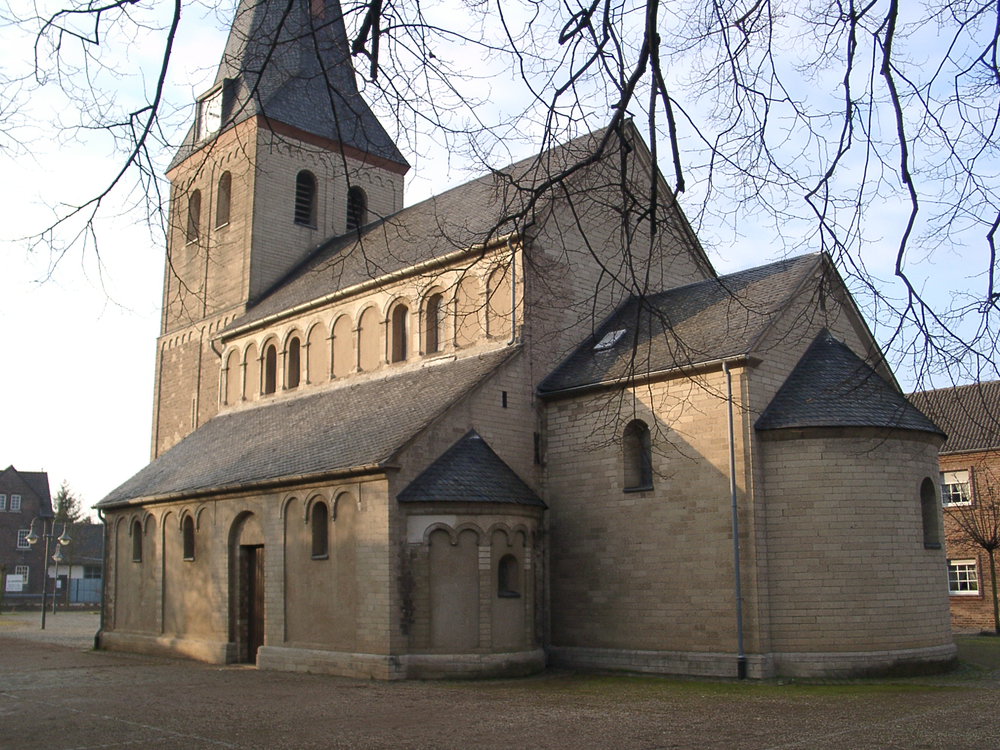 Martinchurch in Kaarst